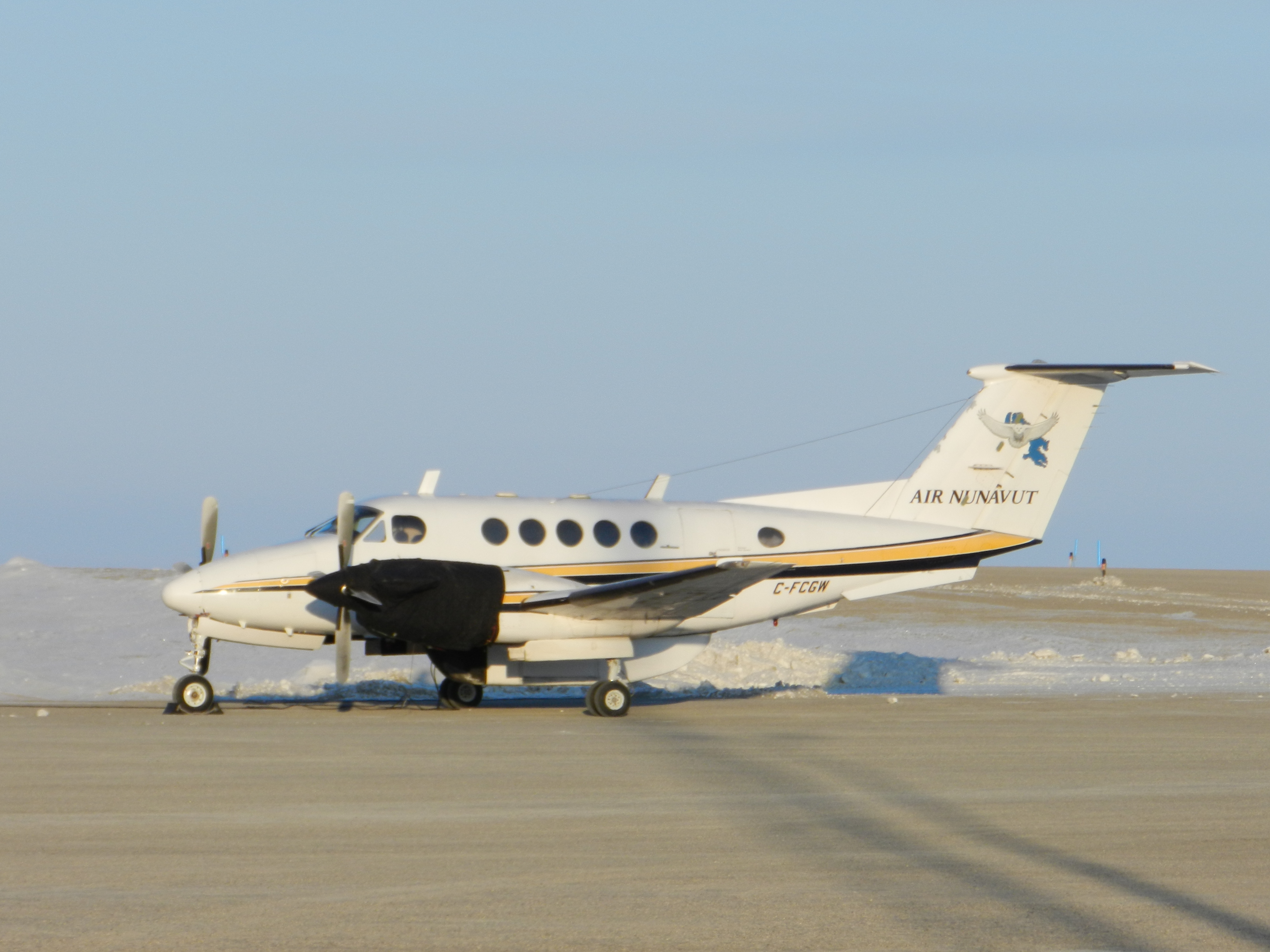 Air Nunavut BE20 at Cambridge Bay Airport